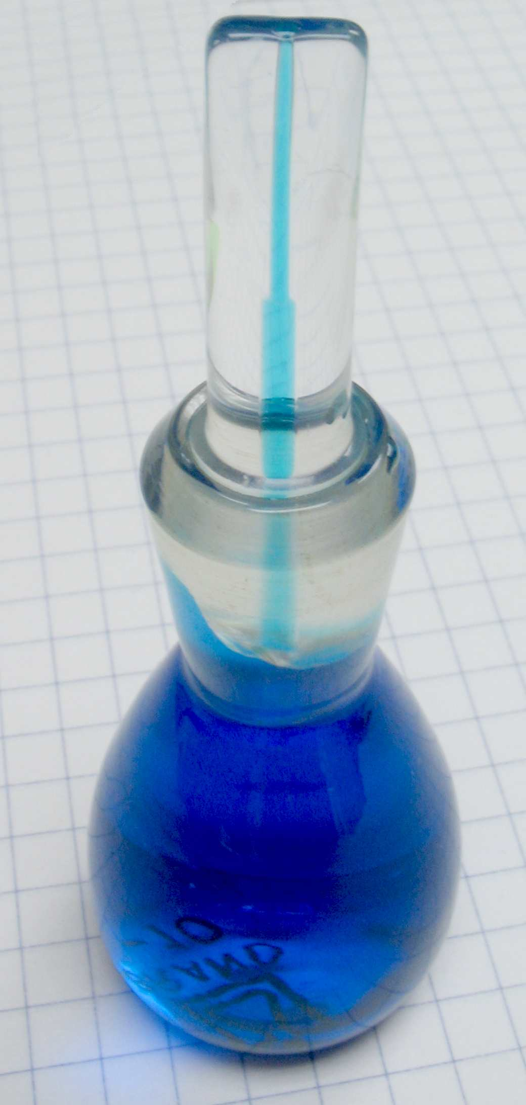 A full pycnometer, photographed on 5 mm squares.